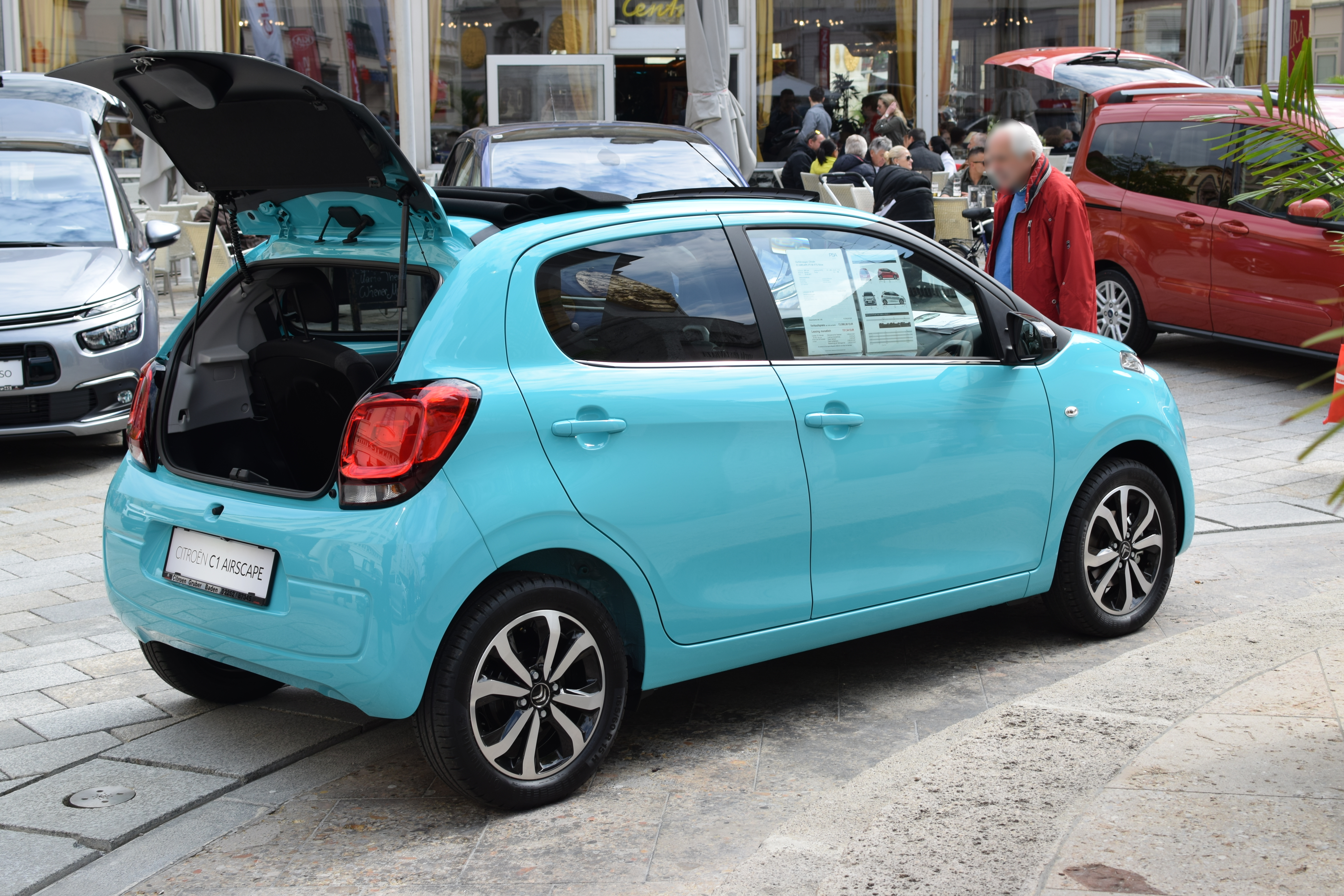 2017 Citroën C1 (2nd generation) in light blue in the side view